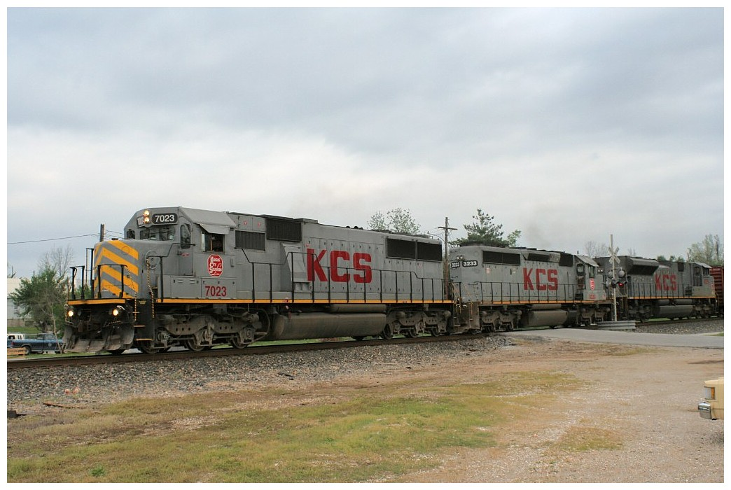 Kansas City Southern Railway 7023, EMD SD50